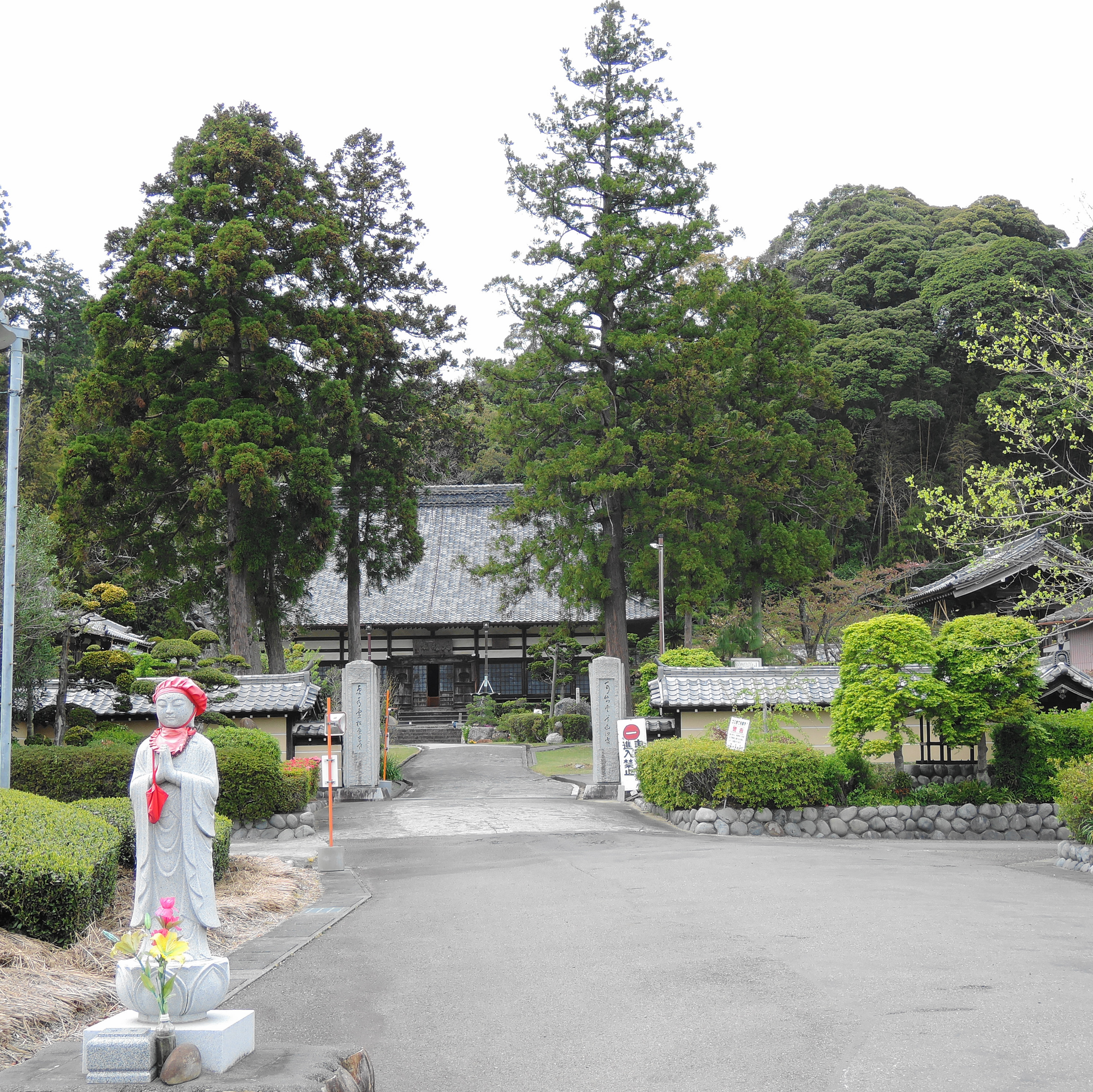 Daikoji,Shizuoka prefecture,Japan